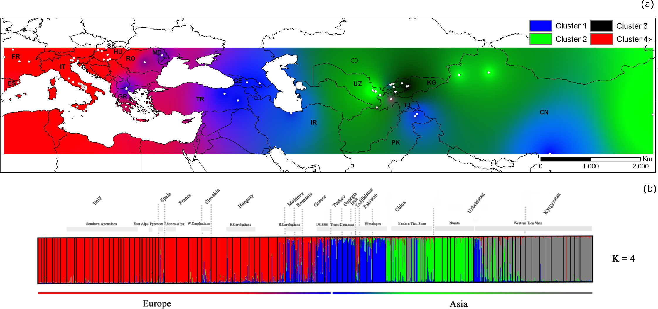 Population structure inference for 91 walnut populations by Bayesian assignment. Abbreviations: CN = China, UZ = Uzbekistan, KG = Kyrgyzstan, TJ = Tajikistan, PK = Pakistan, IR = Iran, GE = Georgia, TR = Turkey, MD = Moldova, RO = Romania, HU = Hungary, SK = Slovakia, GR = Greece, IT = Italy, FR = France, ES = Spain.